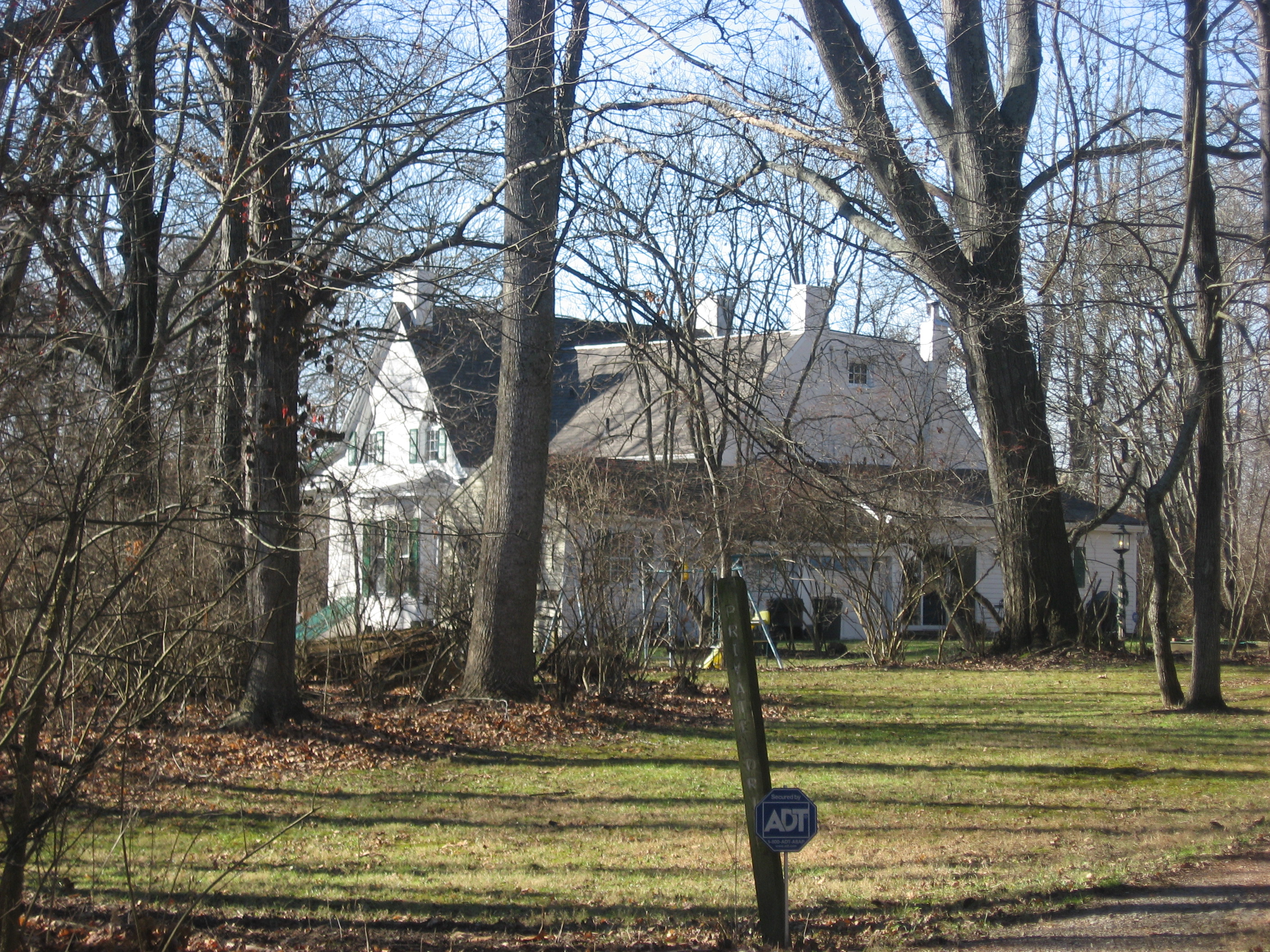 Distant view from the east of the Hunting Lodge Farm, located at 5349 Coulter Lane east of Oxford in Oxford Township, Butler County, Ohio, United States. Built in 1833 as a hunting lodge and later converted into a house, it is listed on the National Register of Historic Places.